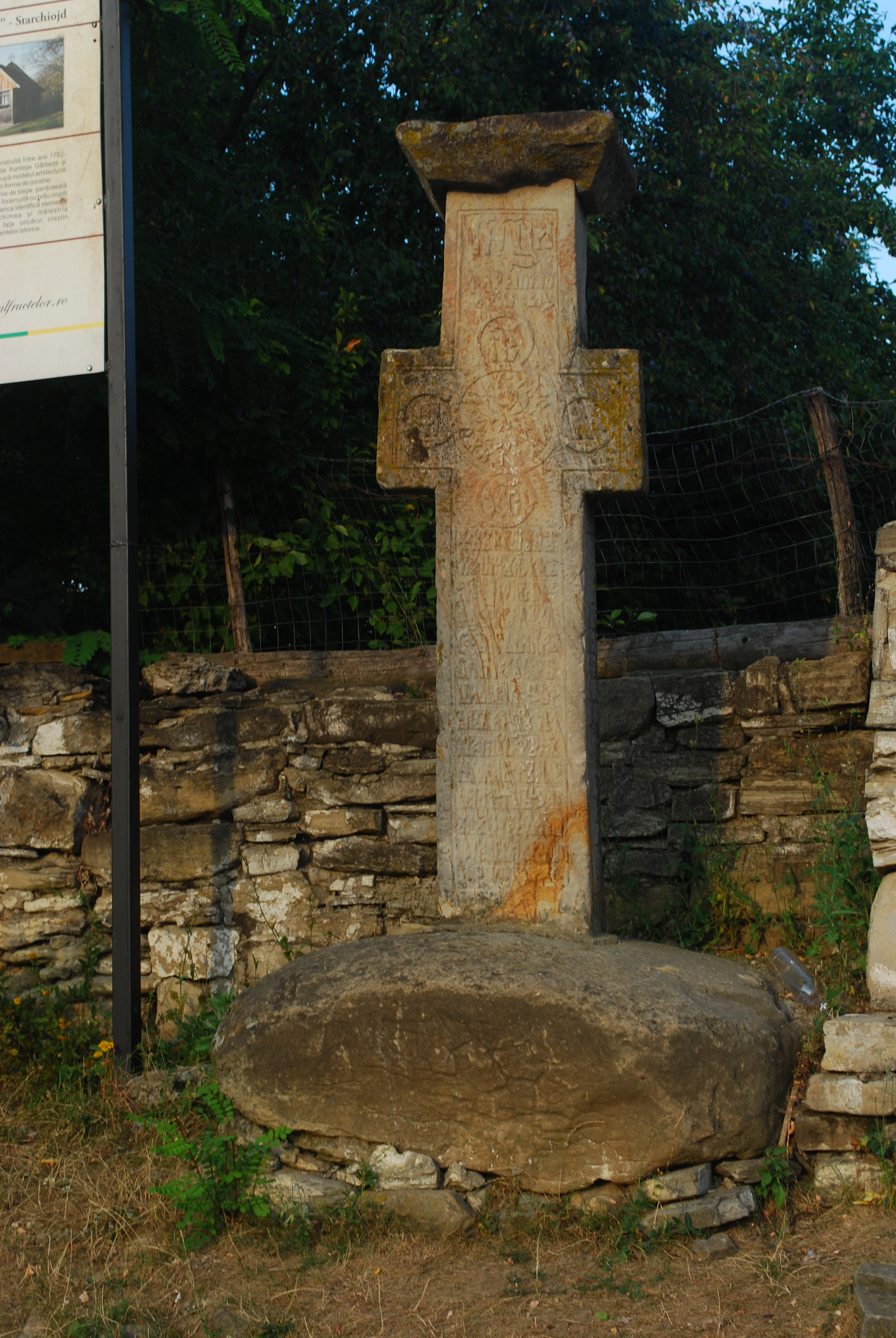 Stone cross in front of Saint Parascheva's church in Starchiojd, Prahova County, RomaniaRomână: Crucea de piatră din fața bisericii Cuvioasa Paraschiva din Starchiojd, județul Prahova, România